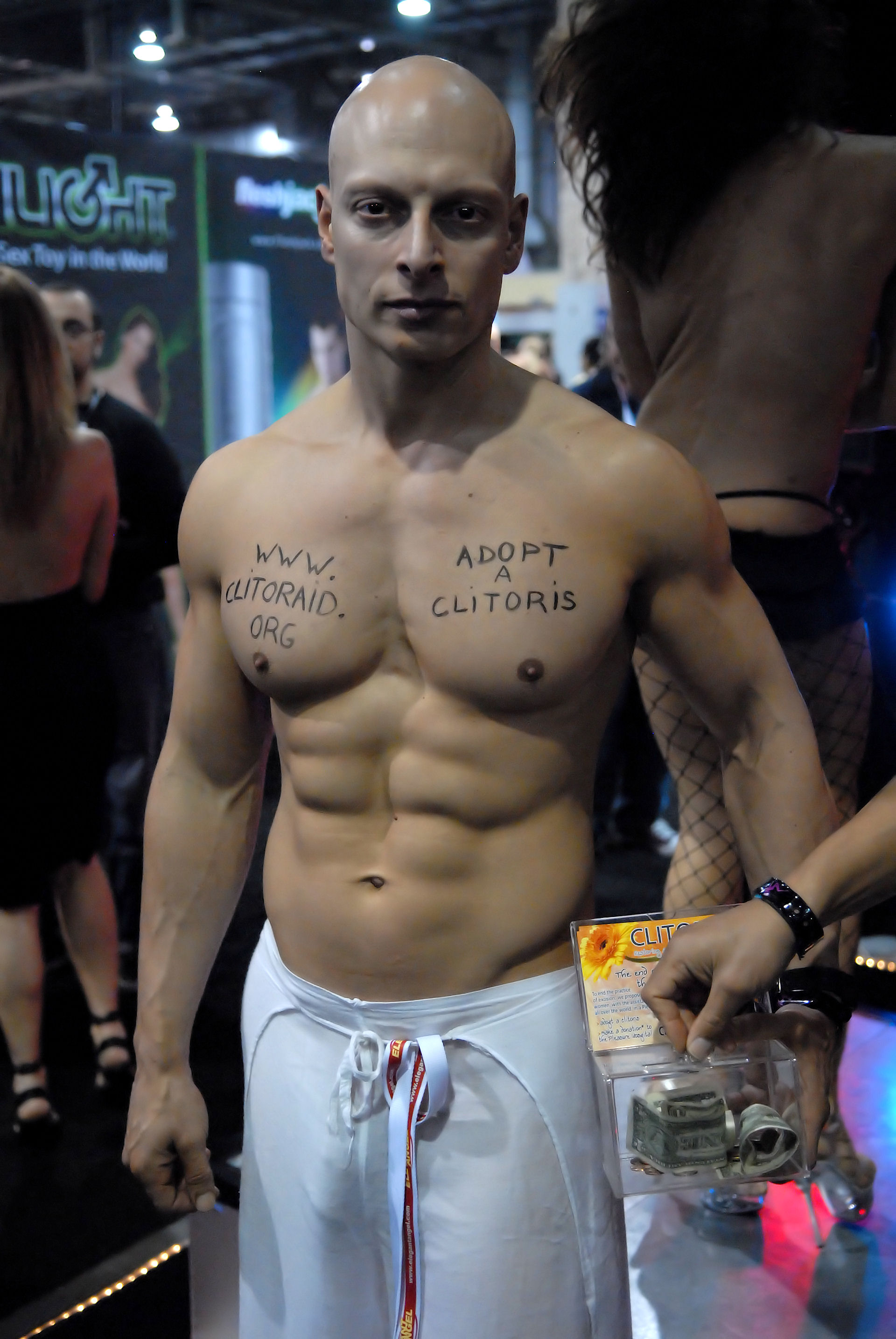 Joseph Gatt/Clitoraid at AVN Adult Entertainment Expo 2009.